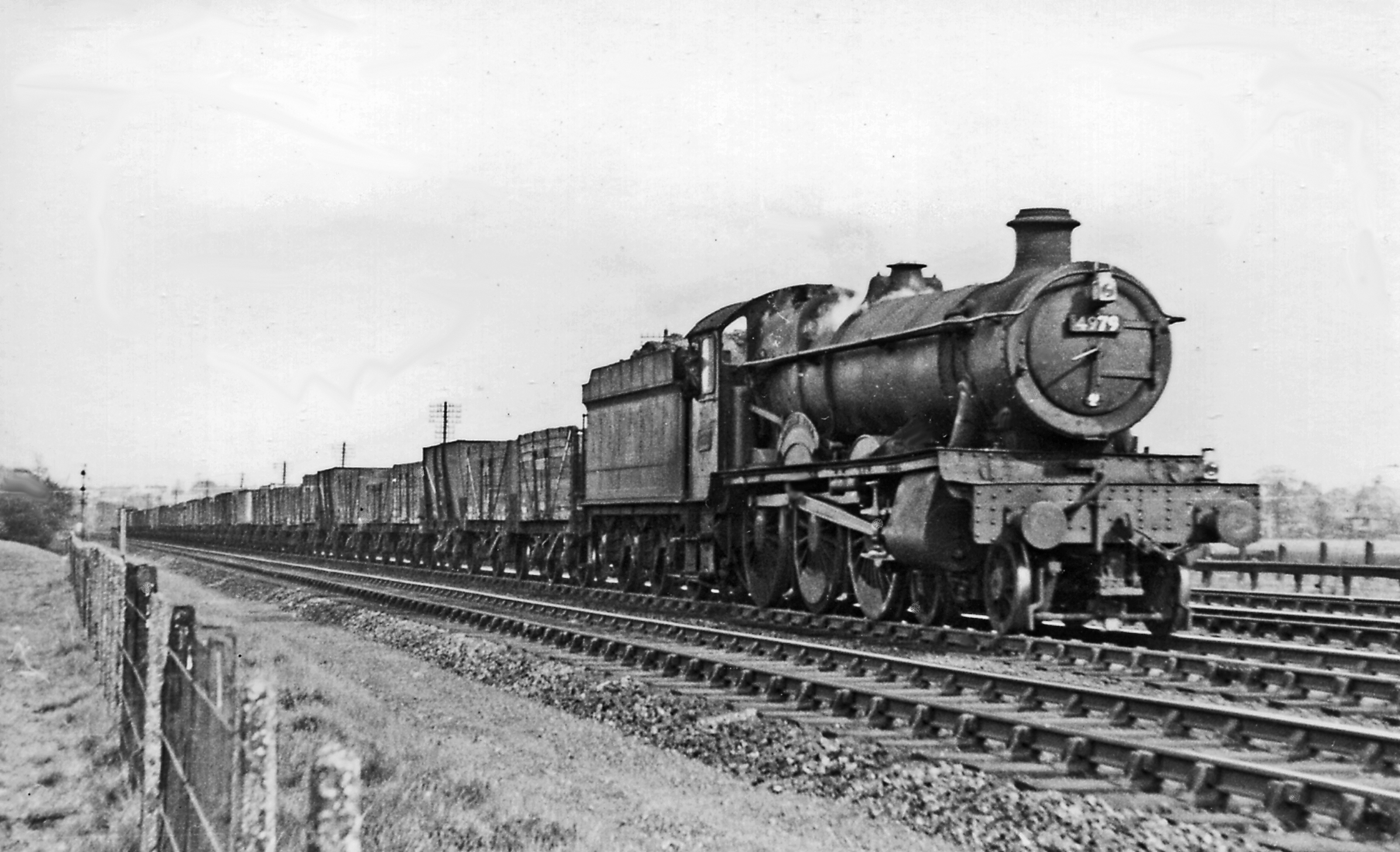 Down empties on the ex-GW main line, approaching Reading at Kennet Bridge Box. View eastward, towards London: ex-GWR Paddington - Reading etc. main line. The class F empties is on the Slow line, headed by Collett 4-6-0 No. 4979 'Wootton Hall' (built 2/30, withdrawn 12/63).